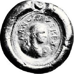 Seal of Arnulph of Carinthia, from 890.